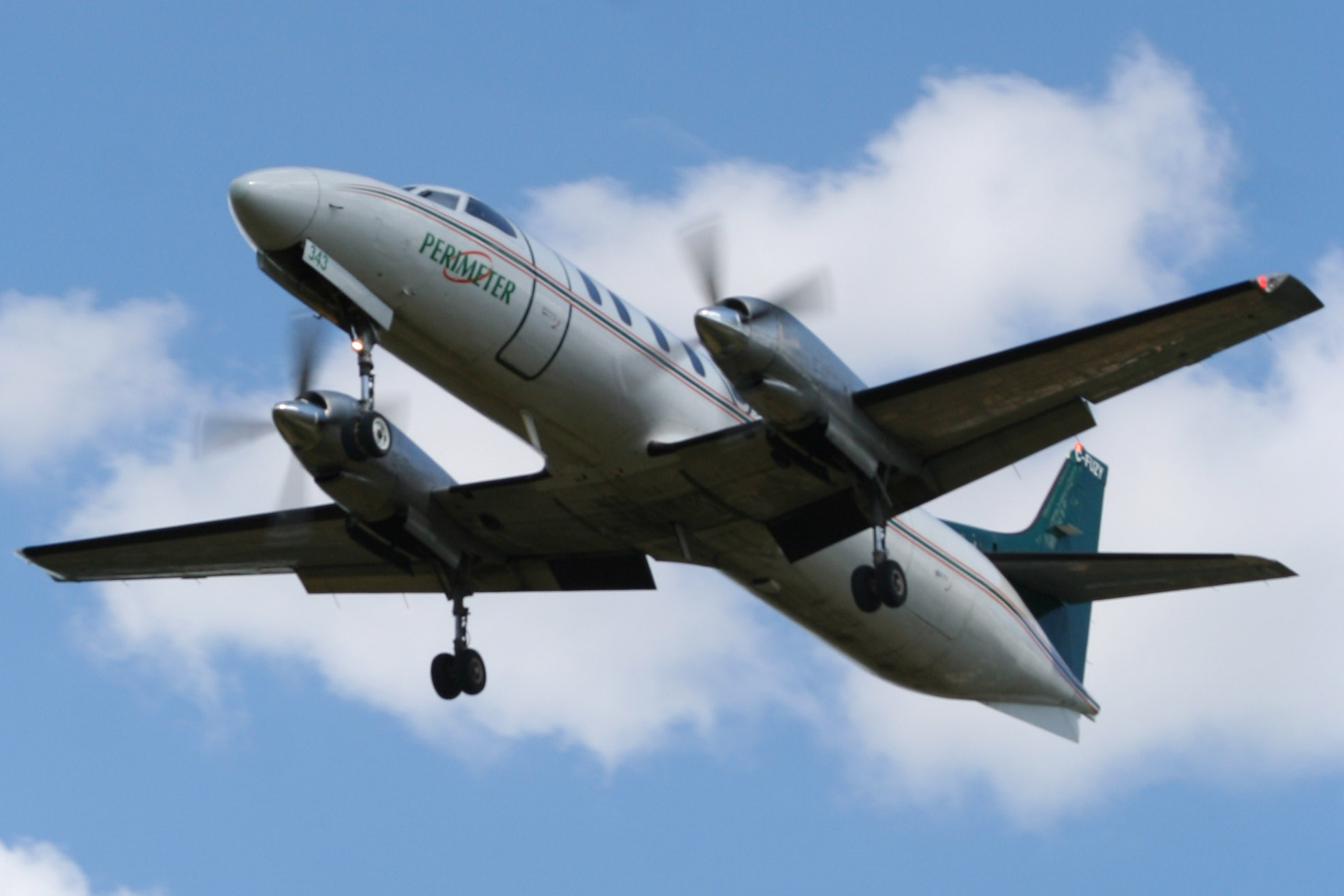 Perimeter Aviation Fairchild Swearingen Metroliner (C-FUZY) on final approach at Winnipeg James Armstrong Richardson International Airport